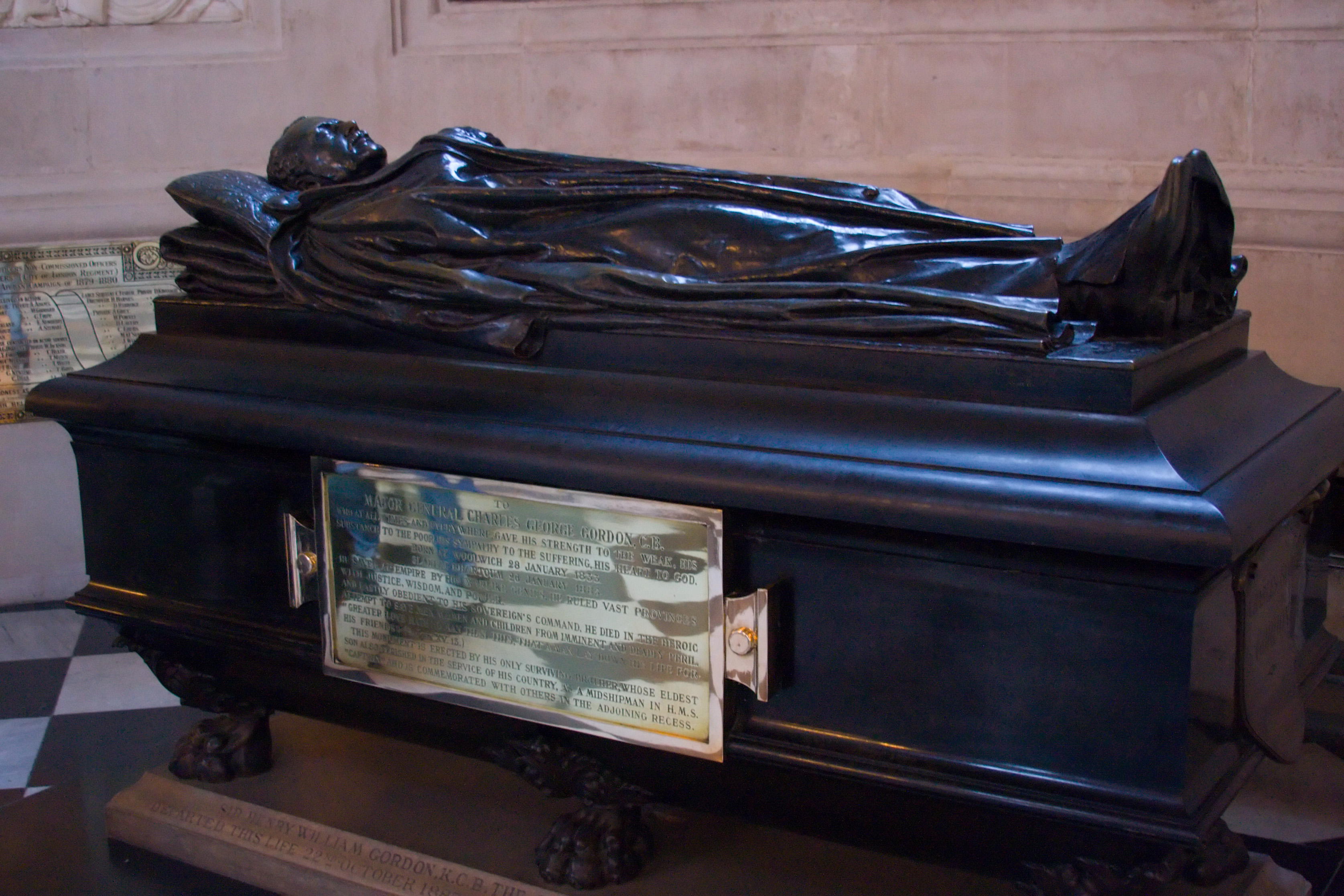 tomb of Gordon of Khartoum in London 2006